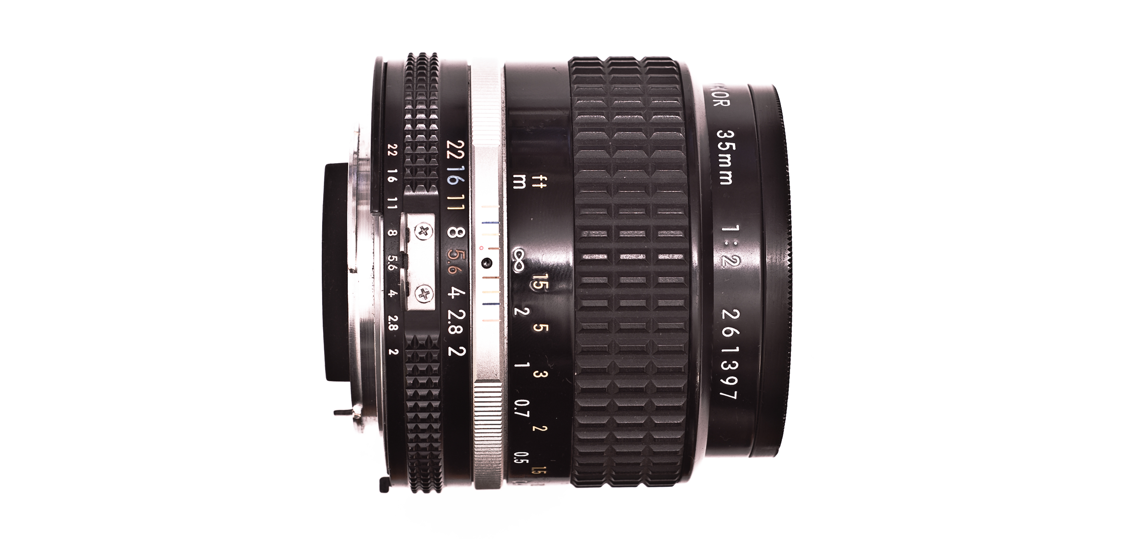 Old 35mm